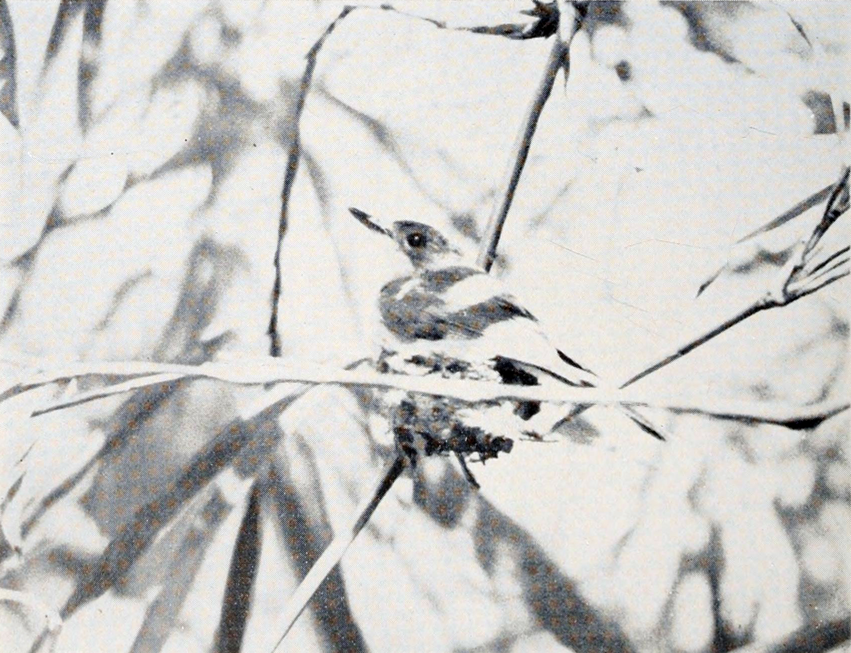 Myiagra freycineti on nest in Bambo Clump, Mount Santa Rosa, Guam. From Report on collections of birds made by United States Naval Medical Research Unit No. 2 in the Pacific war area. SMITHSONIAN MISCELLANEOUS COLLECTIONS. Volume 107, No 15, Publication 3909, 1948.